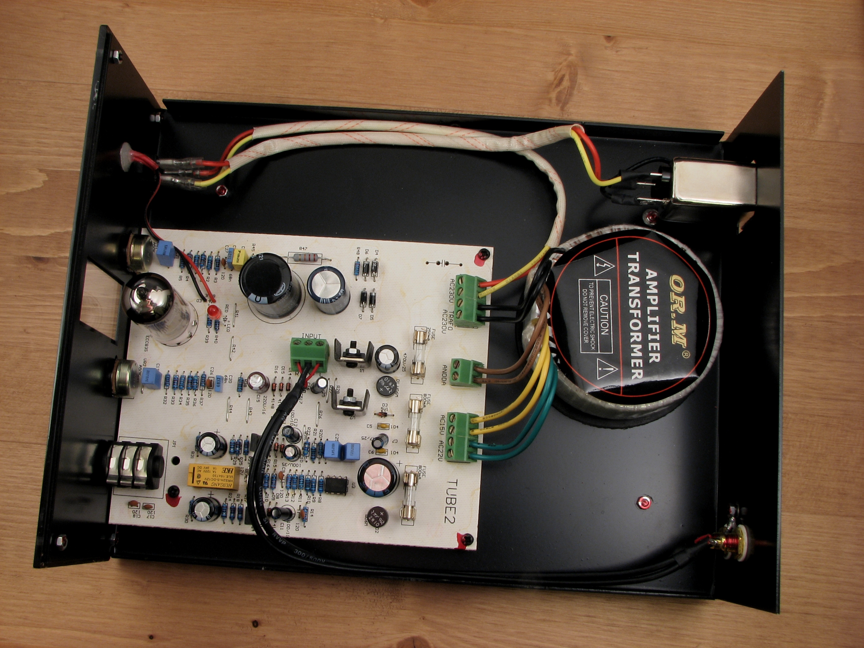 Hybrid (tube for preamplification, transistors for amplification) high end headphone amplifier. Top right is the power input with a noise filter, below it a toroidal transformer and to the bottom the RCA plugs. The tube on the left part of the PCB is a double triode (one for each channel) for the preamplification stage. Above and below it are two separate volume controls. Bottom left is a 6.3mm stereo plug. In the middle of the board is the input from the RCA plugs and right next to it are the transistors used for the last stage of amplification.